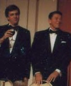 President Ronald Reagan, Nancy Reagan, Clark Horvath (1-7) Speaking at podium Reception for Young Republican Federation President Ronald Reagan, Nancy Reagan, Joy Baker, Marya McLaughlin, Cokie Roberts, Tom Frawley, Suzanne Nicholas (Not in all photos) (8-12) Shaking hands 37th Annual Radio and Television Correspondents Dinner President Ronald Reagan, Nancy Reagan, Joy Baker, William French Smith, Marya McLaughlin, Rich Little, Brit Hume, Sue Mathis (Not in all photos) (13-28) Speaking at podium, acknowledging applause, waving 37th Annual Radio and Television Correspondents Dinner